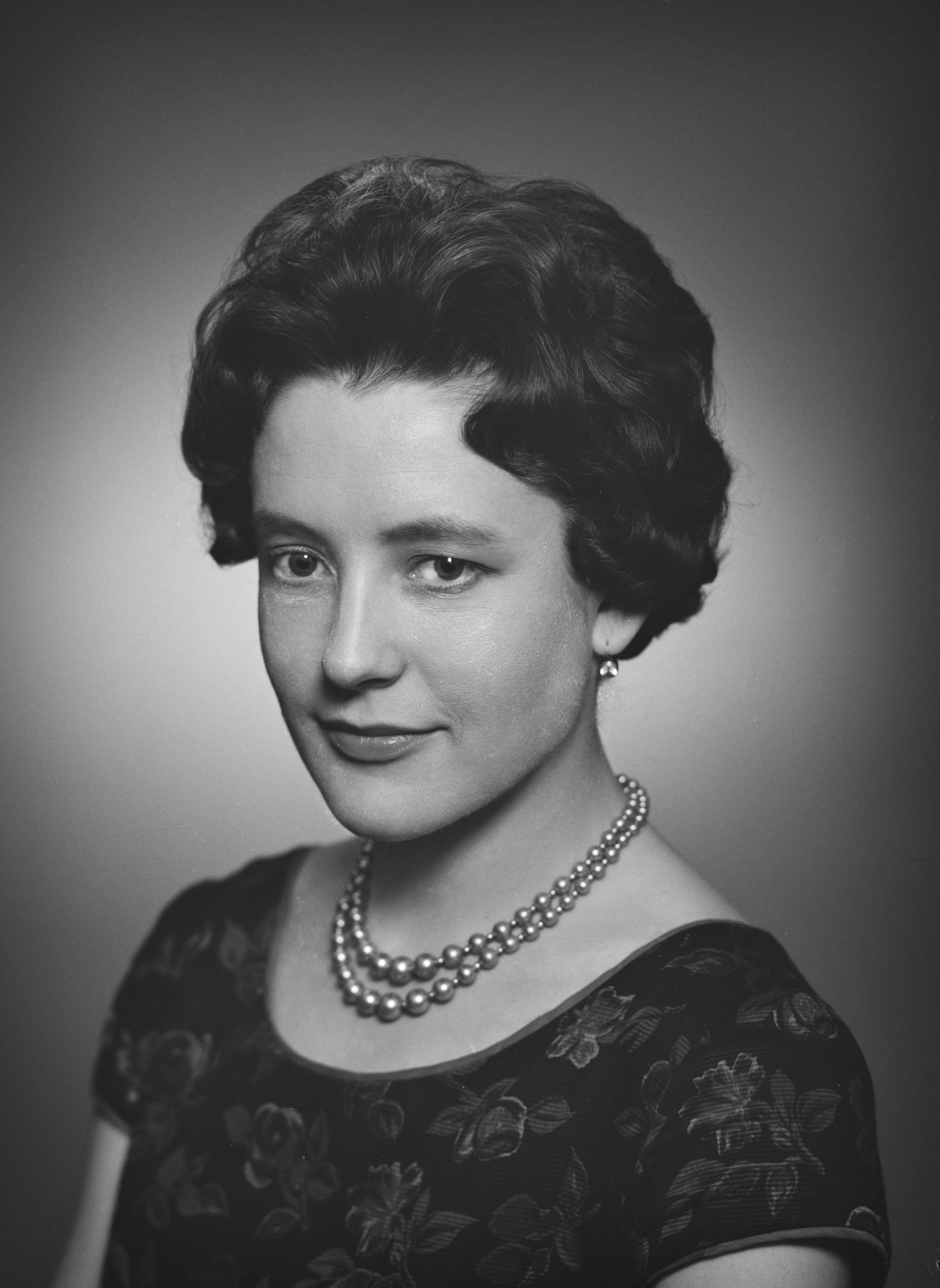 Photograph of the Finnish choral conductor Astrid Riska (1932–2010).